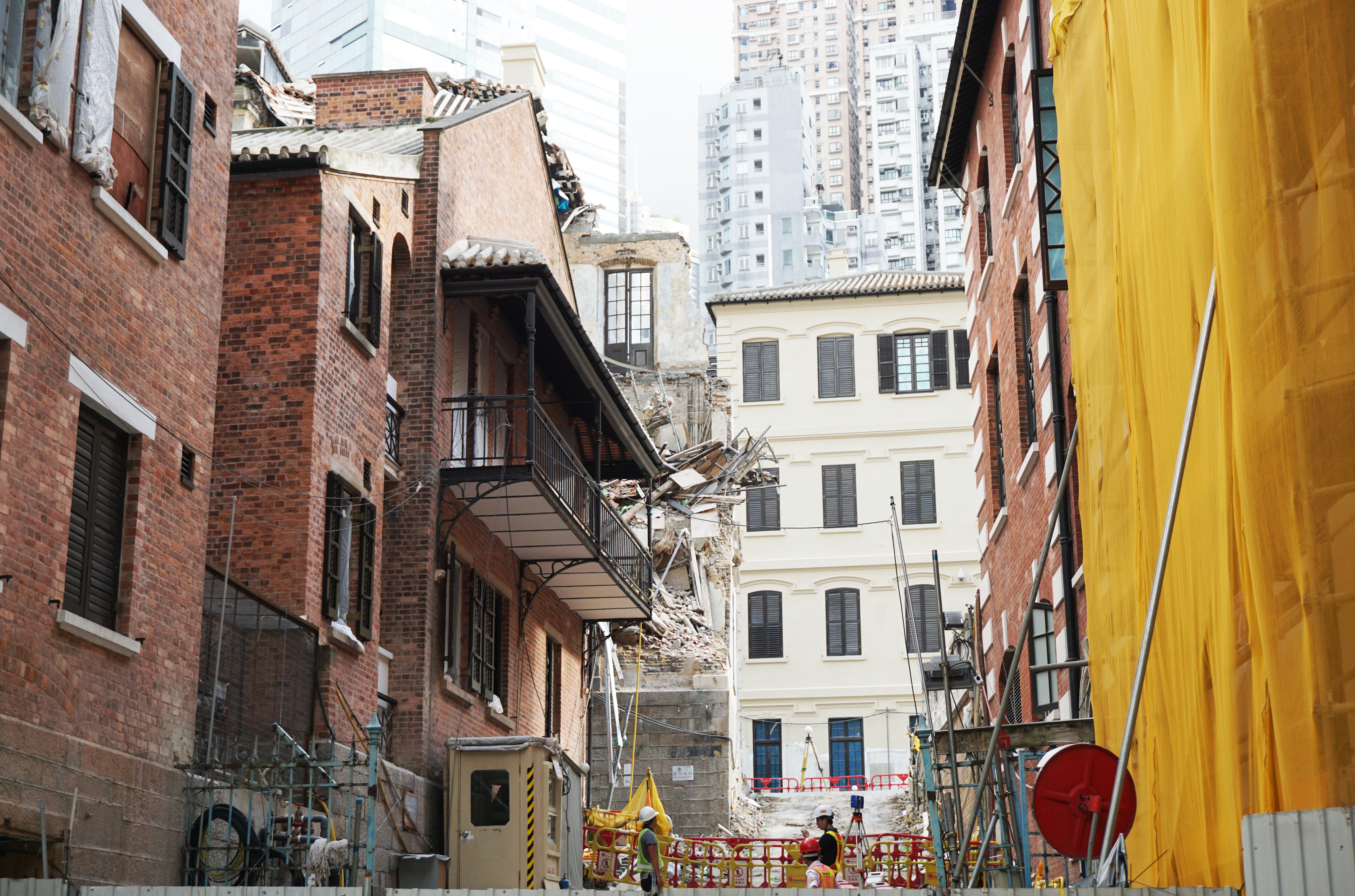 Former police station in Central, Hong Kong.